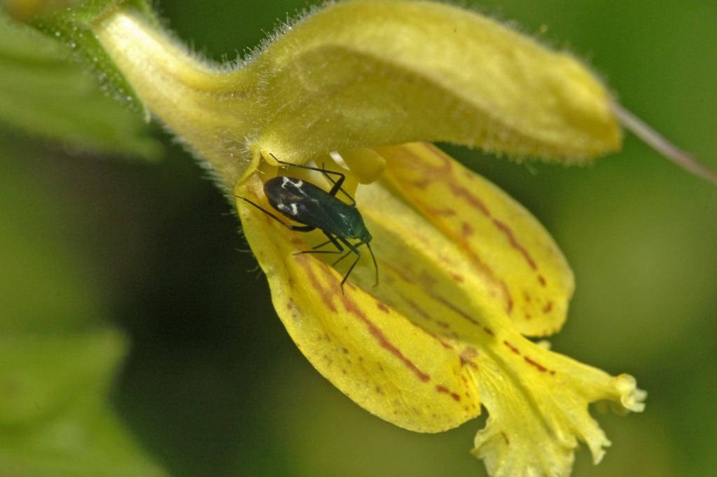 Miridae - Macrotylus quadrilineatus - Parco dell'Antola, Genova, Italy